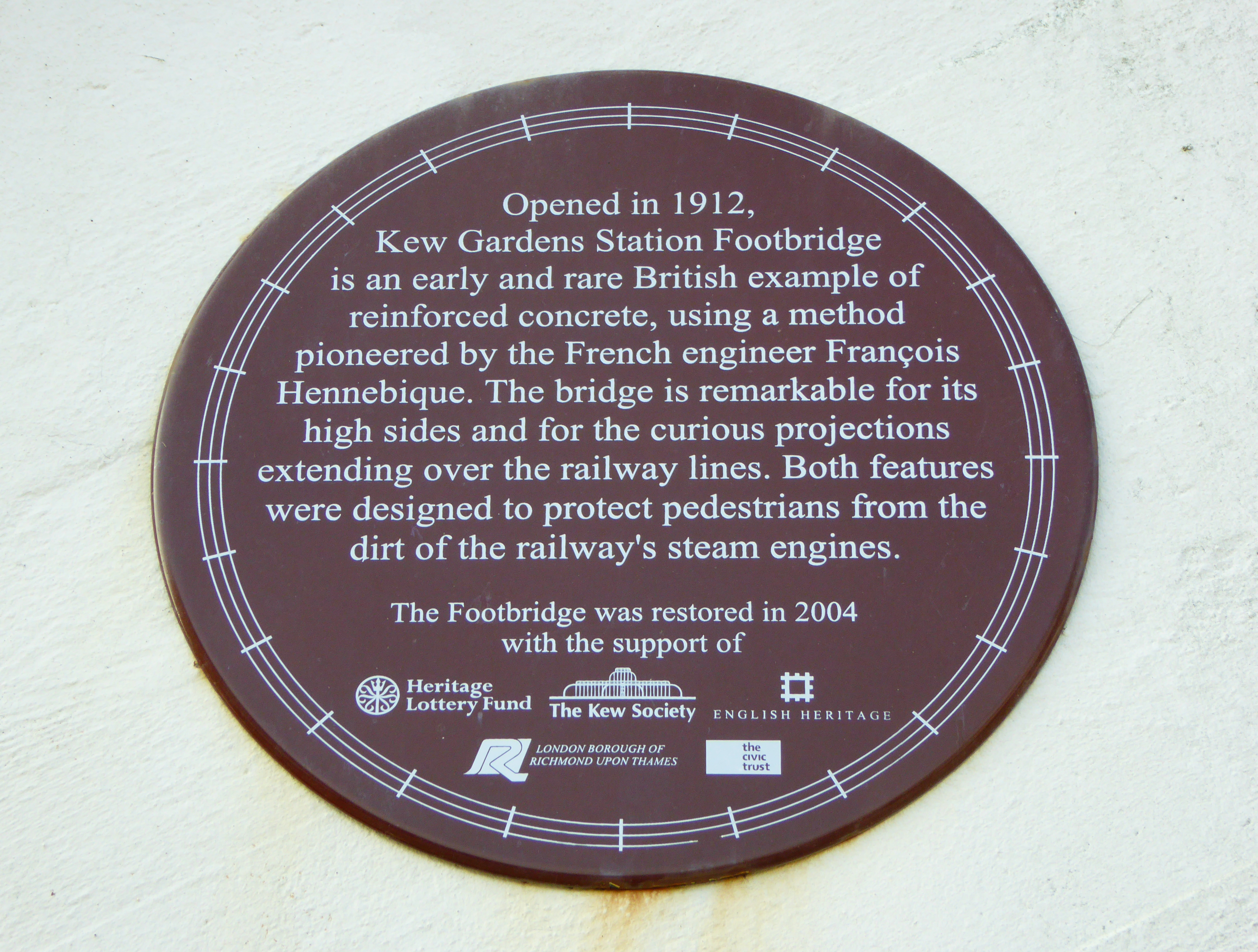 Plaque celebrating concrete footbridge, Kew Garden Station, London